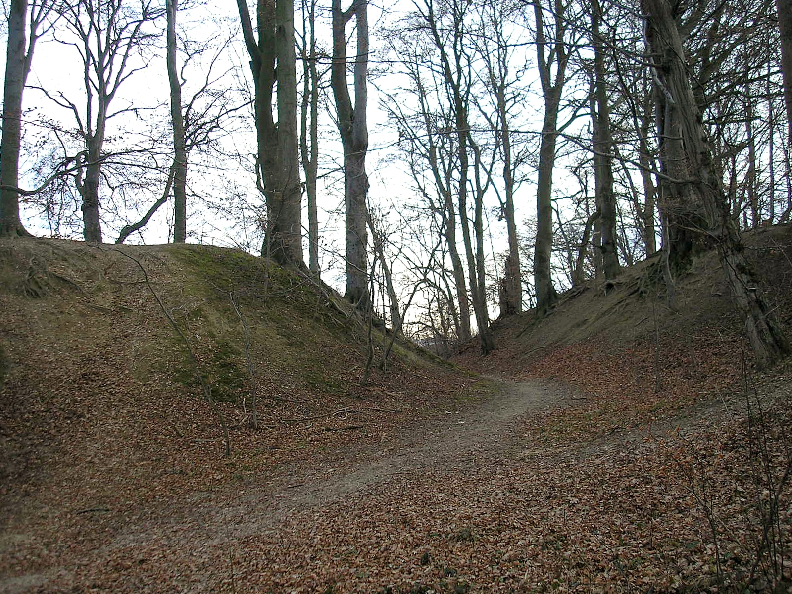 Former Roggenstein castle near Fuerstenfeldbruck, Upper Bavaria, Germany. The central castle. The western moat, looking south